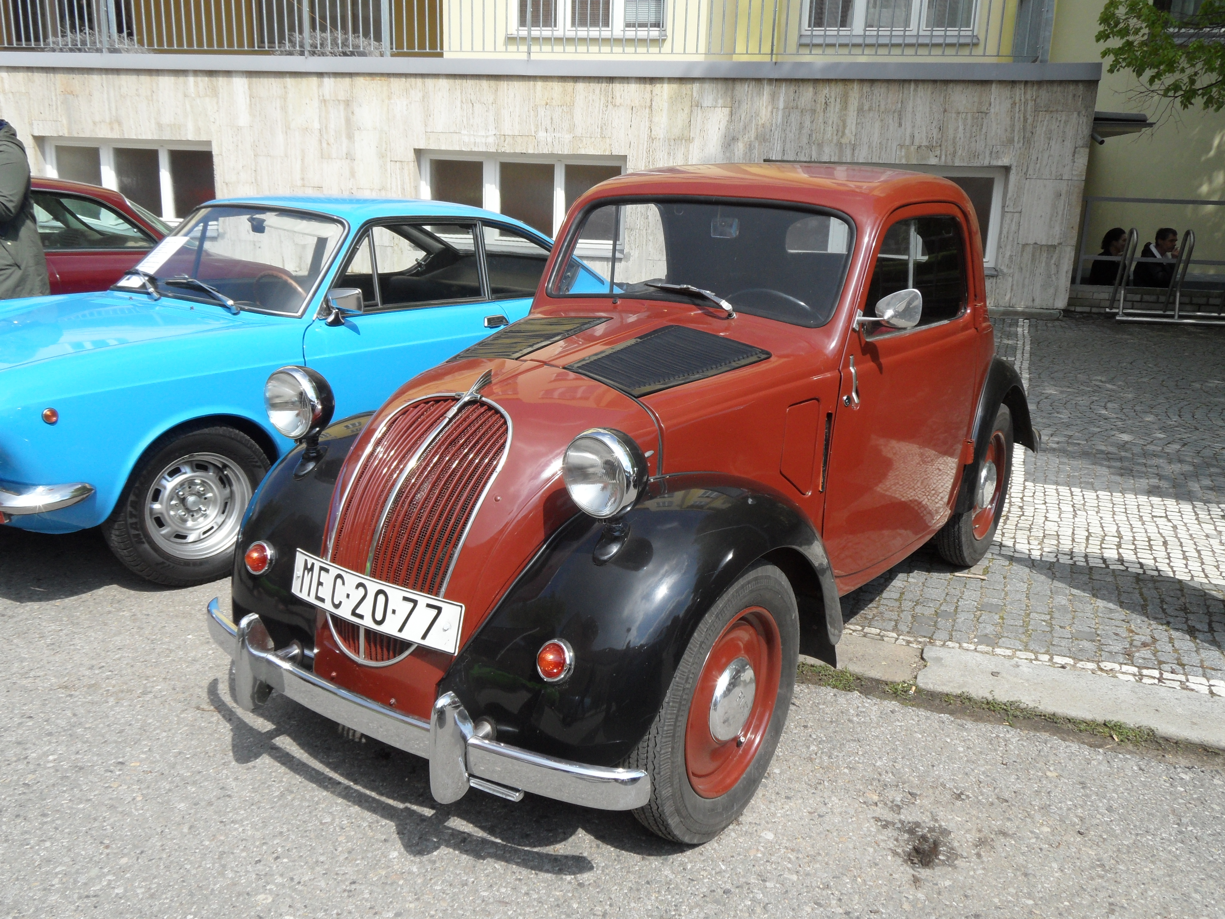 18th Meeting of Italian Car in Poděbrady; Nymburk District, the Czech Republic.Fiat 500 "Topolino".